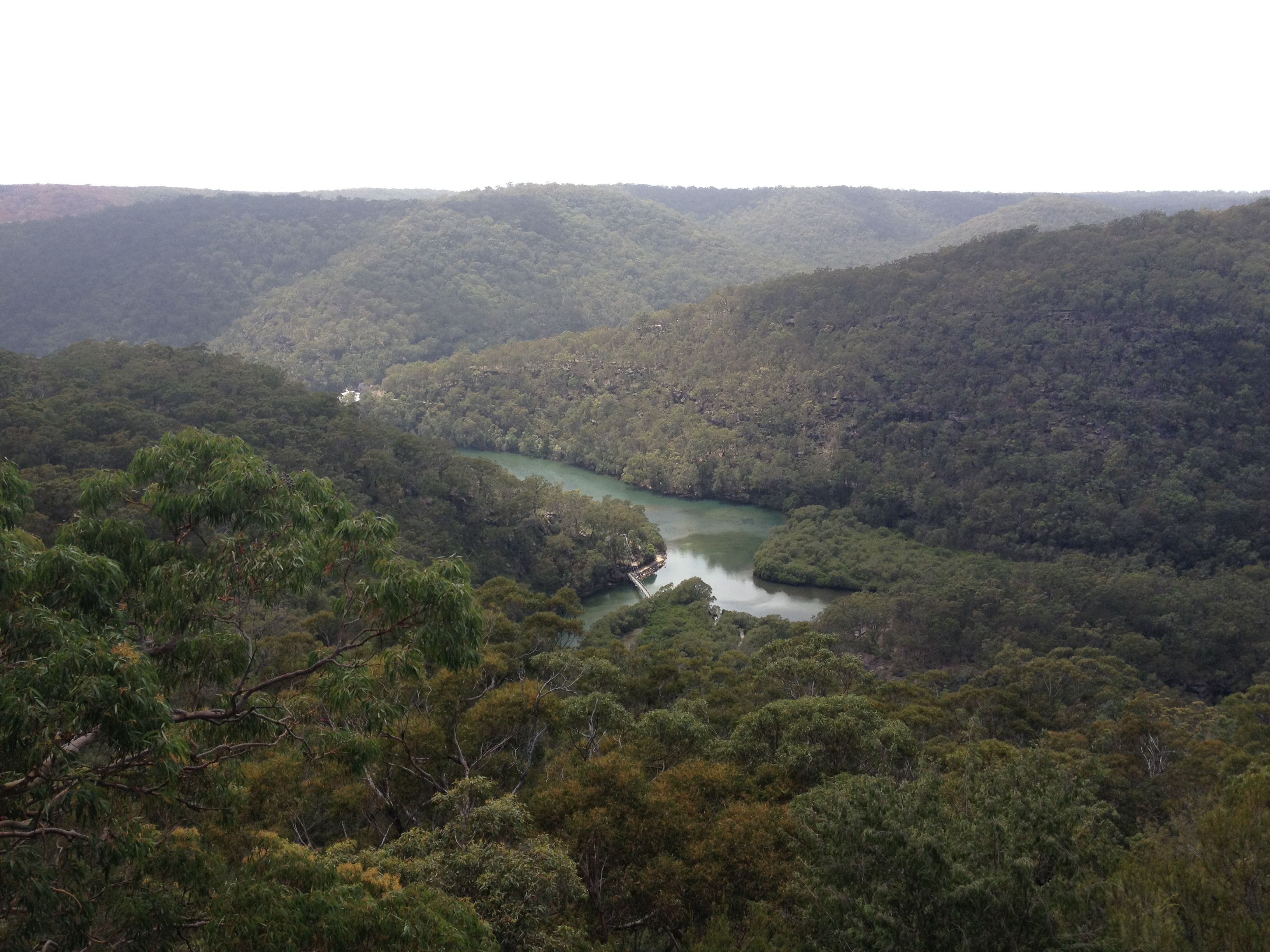 Bobbin Head from the Kalkarri Visitor Centre